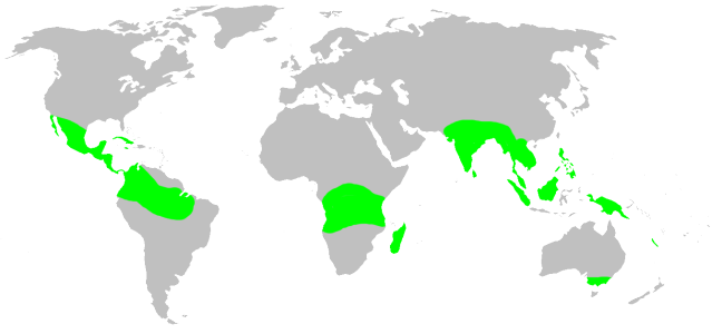 Tetrablemmidae habitat distribution, drawn after Platnick: World Spider Catalog 7.0. This is not a precise rendering of the distribution! If you have better information, please replace this map, or send me the info, and i will redraw it.